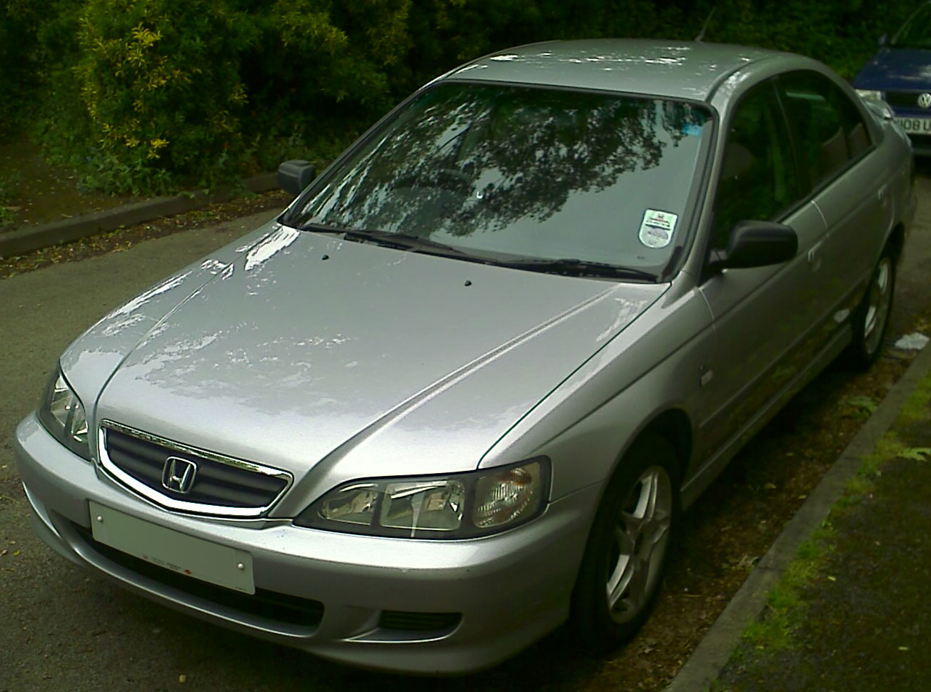 Honda Accord Sport 2001